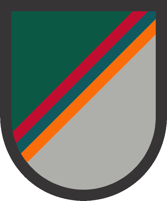 U.S. Army's 3rd Military Information Support Battalion (Dissemination) of the 4th Military Information Support Group unit flash